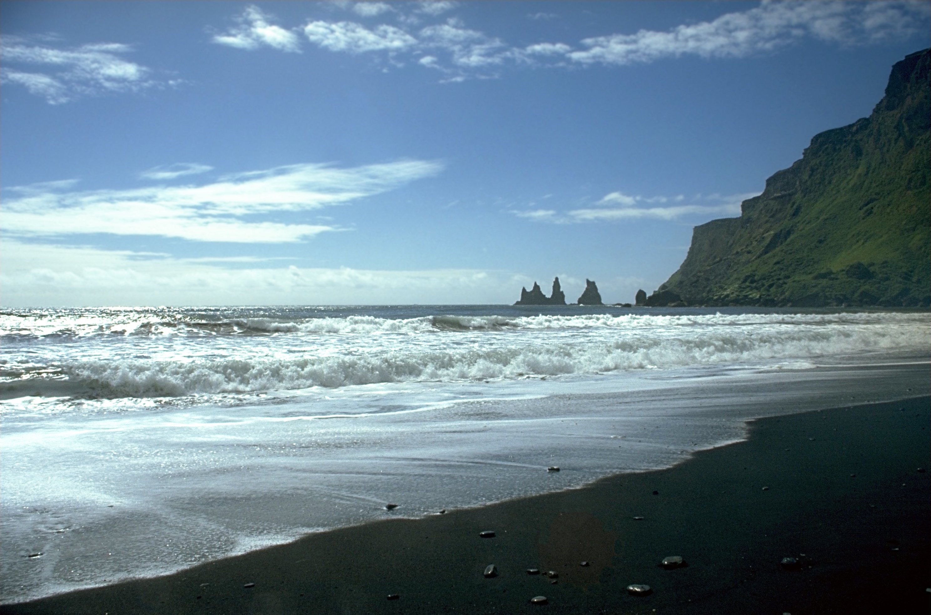 Reynisdrangar at morning, Vík, Iceland Photo was taken using the following technique: Film: Kodak Elite 100 Lens: 28-80 Filter: none Body: Minolta 600si Support: Image with Information in English Bild mit Informationen auf Deutsch